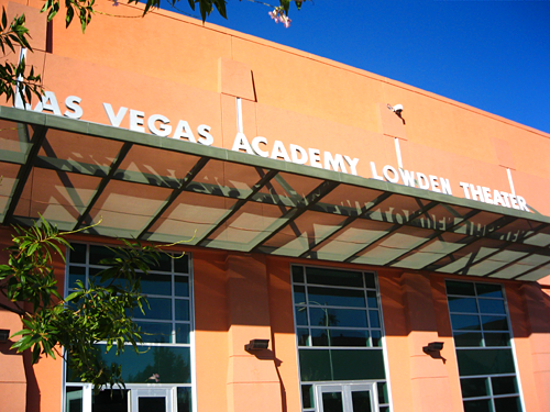 The facade of the Las Vegas Academy Lowden Theatre for Performing Arts.